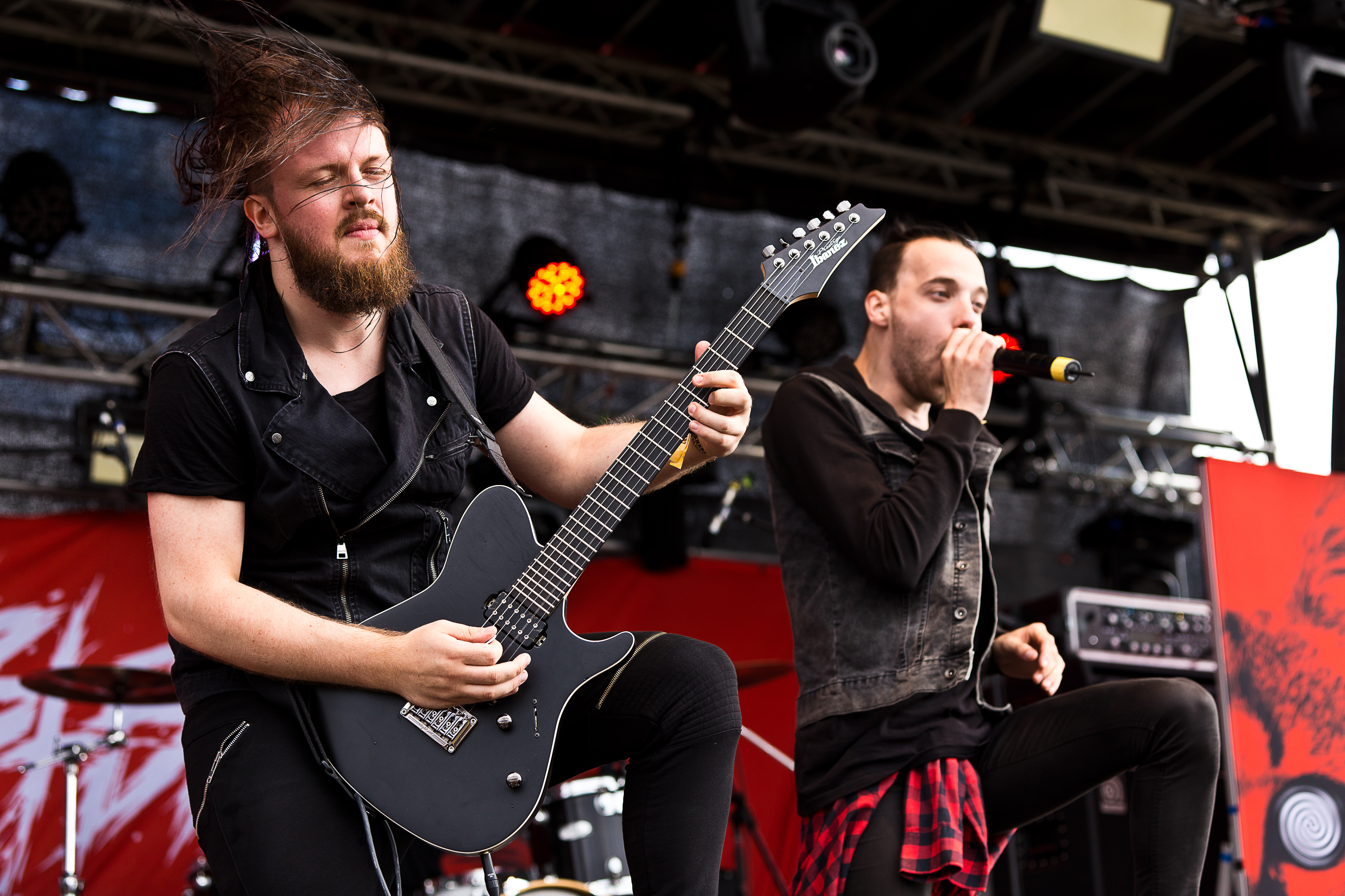 The German deathcore band We Butter the Bread with Butter at the Rockharz Open Air 2015 in Ballenstedt/Germany.